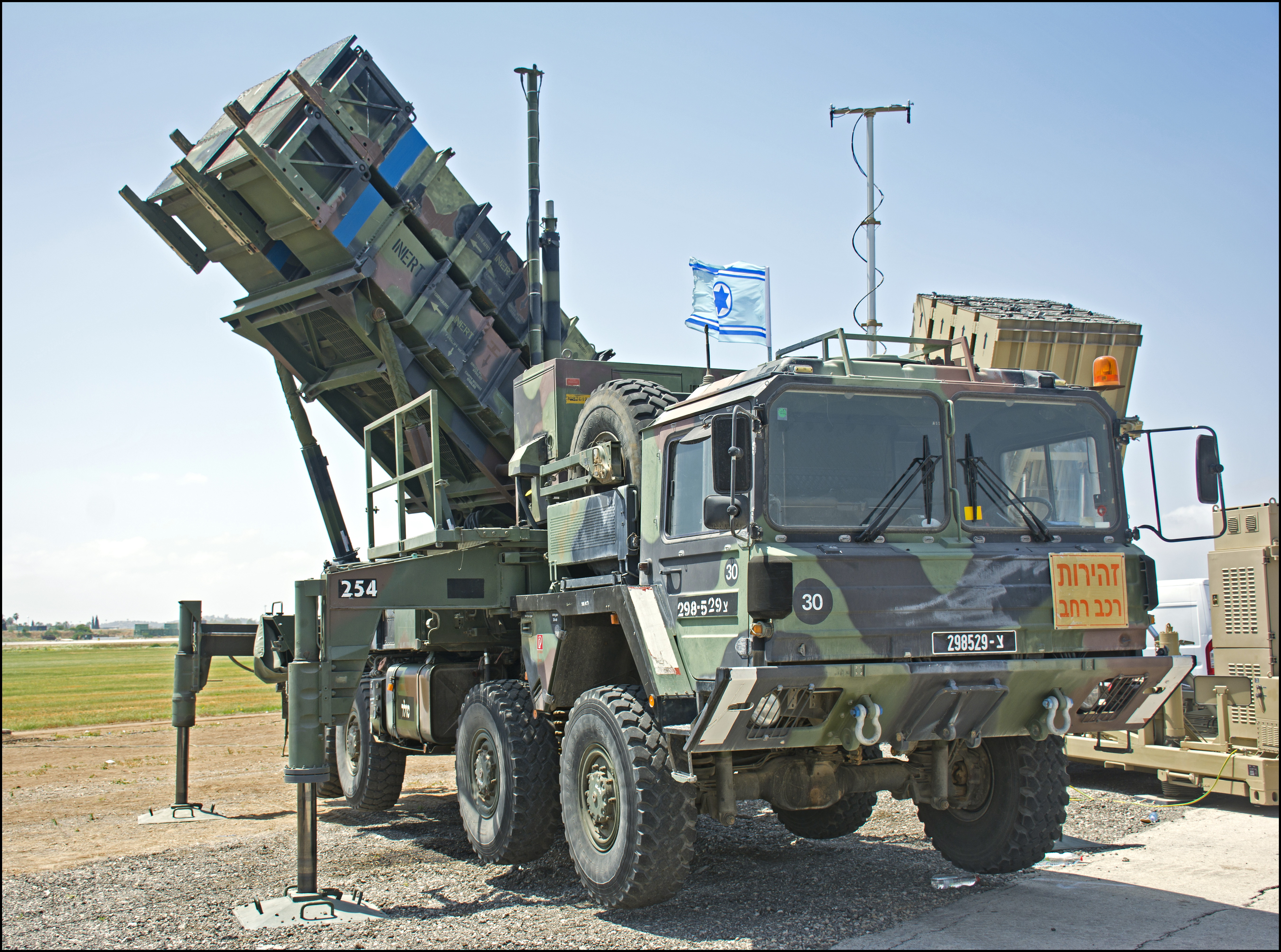 IAF Yahalom - MIM-104D Patriot surface-to-air missile, Israel Air Defense Command, Independence Day 2017